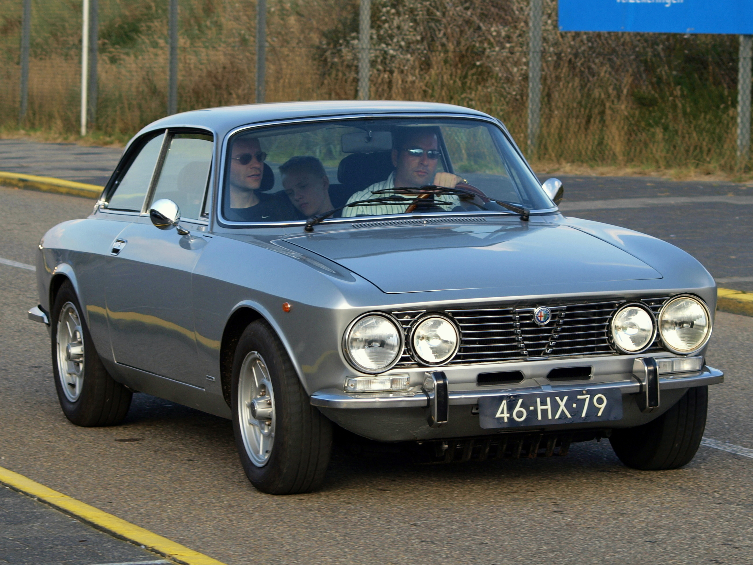 Alfa Romeo 2000GTV designed by Giorgetto Giugiaro. Photographed at the Nationaal Oldtimer Festival Zandvoort 2009, The Netherlands. OLYMPUS DIGITAL CAMERA